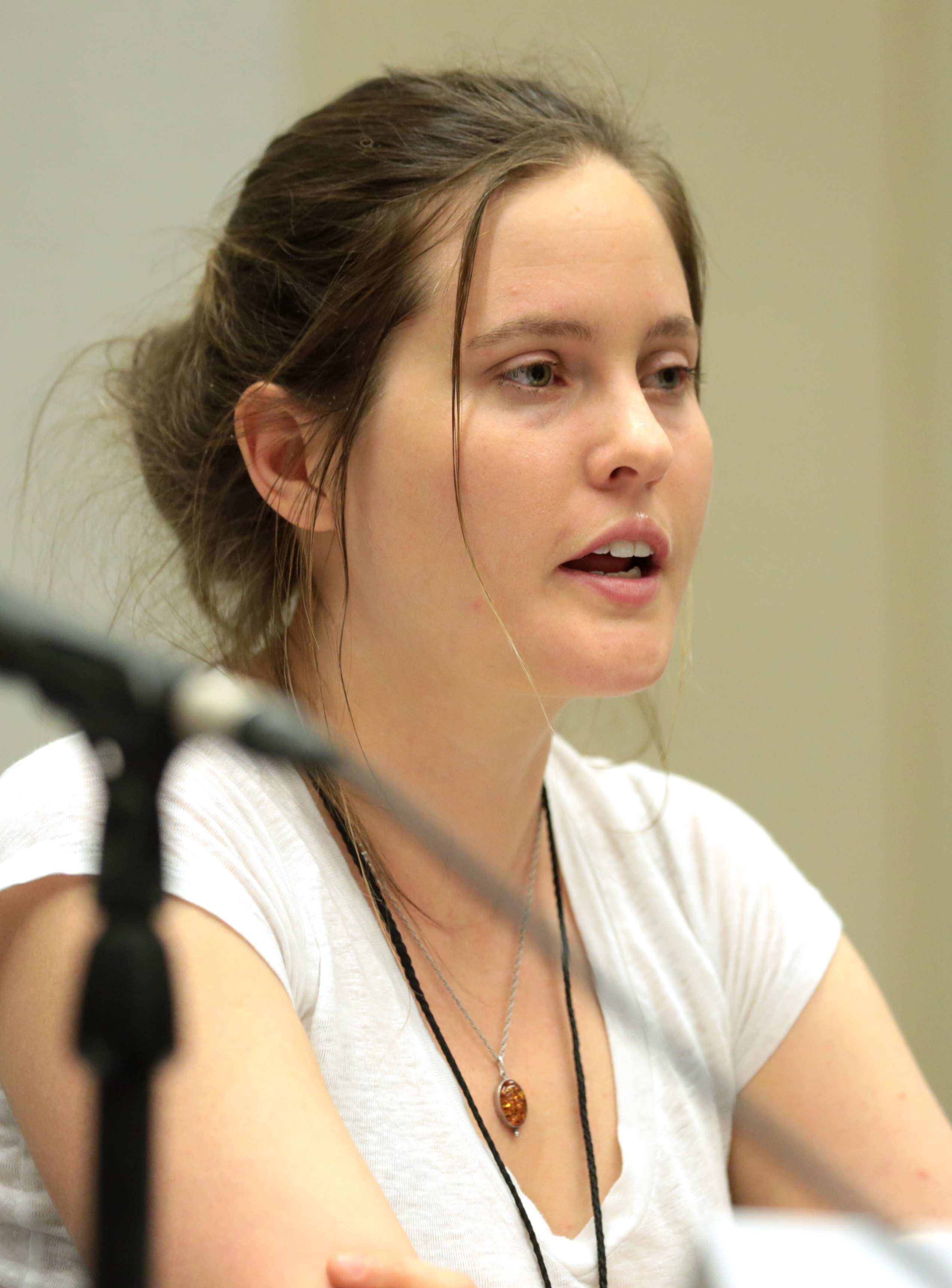 Katherine Arden speaking at the 2018 Phoenix Comic Fest in Phoenix, Arizona.